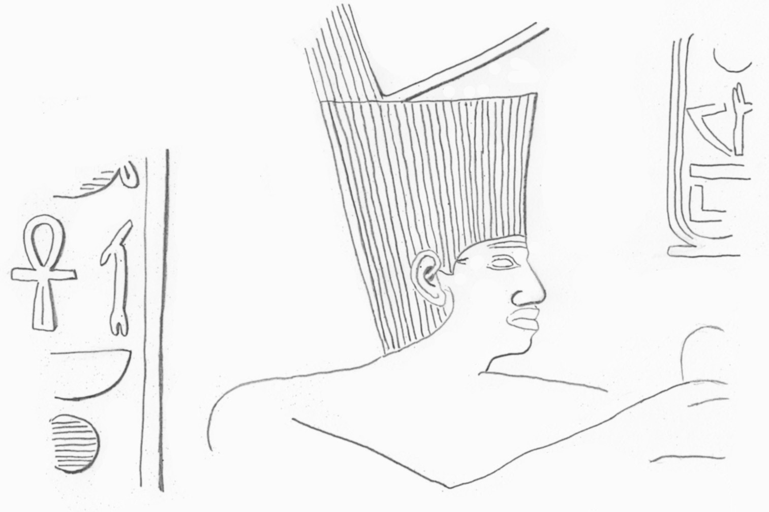 Drawing of an ancient Egyptian relief on a block. The block (inv. no. BLM-I-18) was found in 2010/11 in the former lake of the temple of Mut at Tanis, and is now believed to depicting pharaoh Osorkon IV in an archaizing style. A cartouche is partially visible on the right, and contains Osorkon IV's throne name, Usermaa(t)re.[Ref: Dodson, Aidan (2014) "The Coming of the Kushites and the Identity of Osorkon IV" in Pischikova, Elena , ed. Thebes in the First Millennium BC, Cambridge Scholars publishing, pp. 6–12 ISBN: 978-1-4438-5404-7. ]